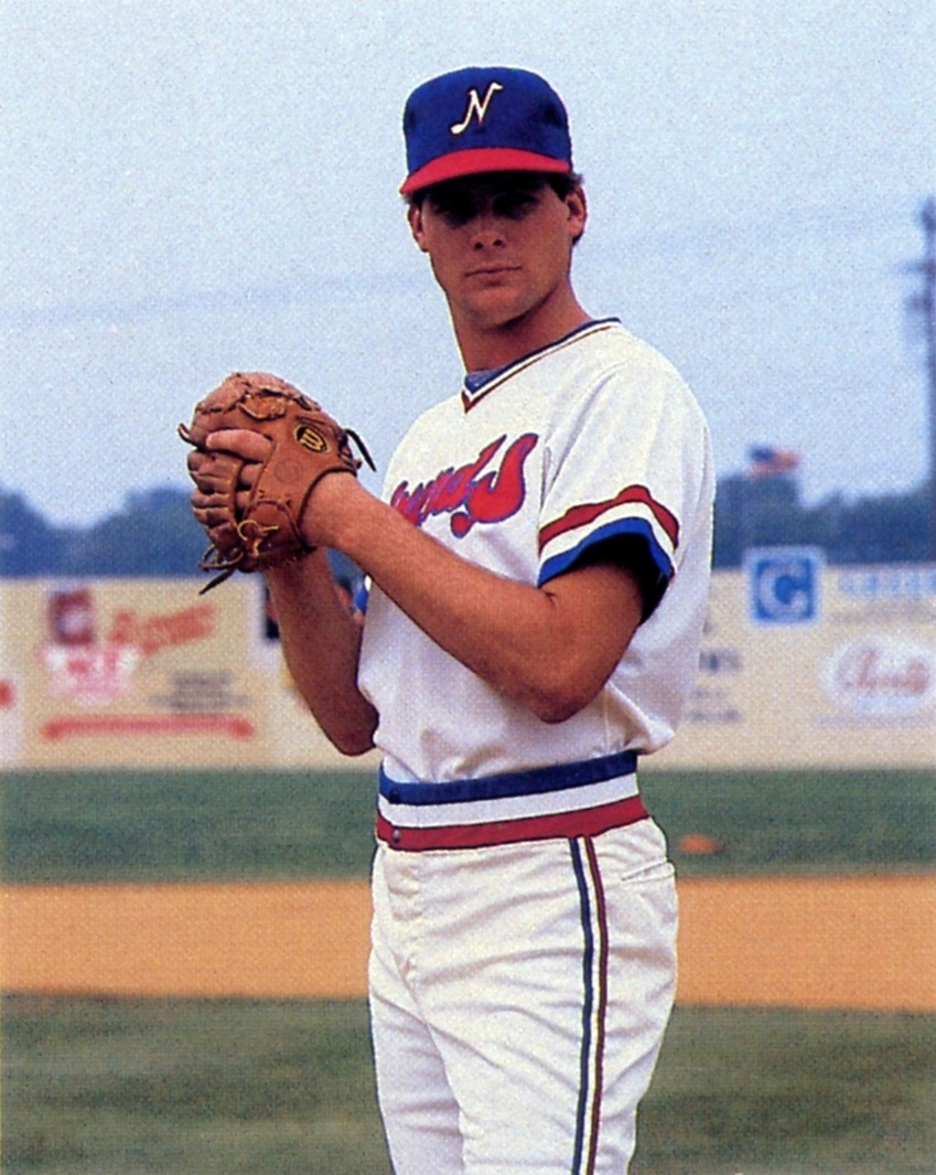 Pitcher Clay Christiansen of the 1982 Nashville Sounds Minor League Baseball team of the Southern League